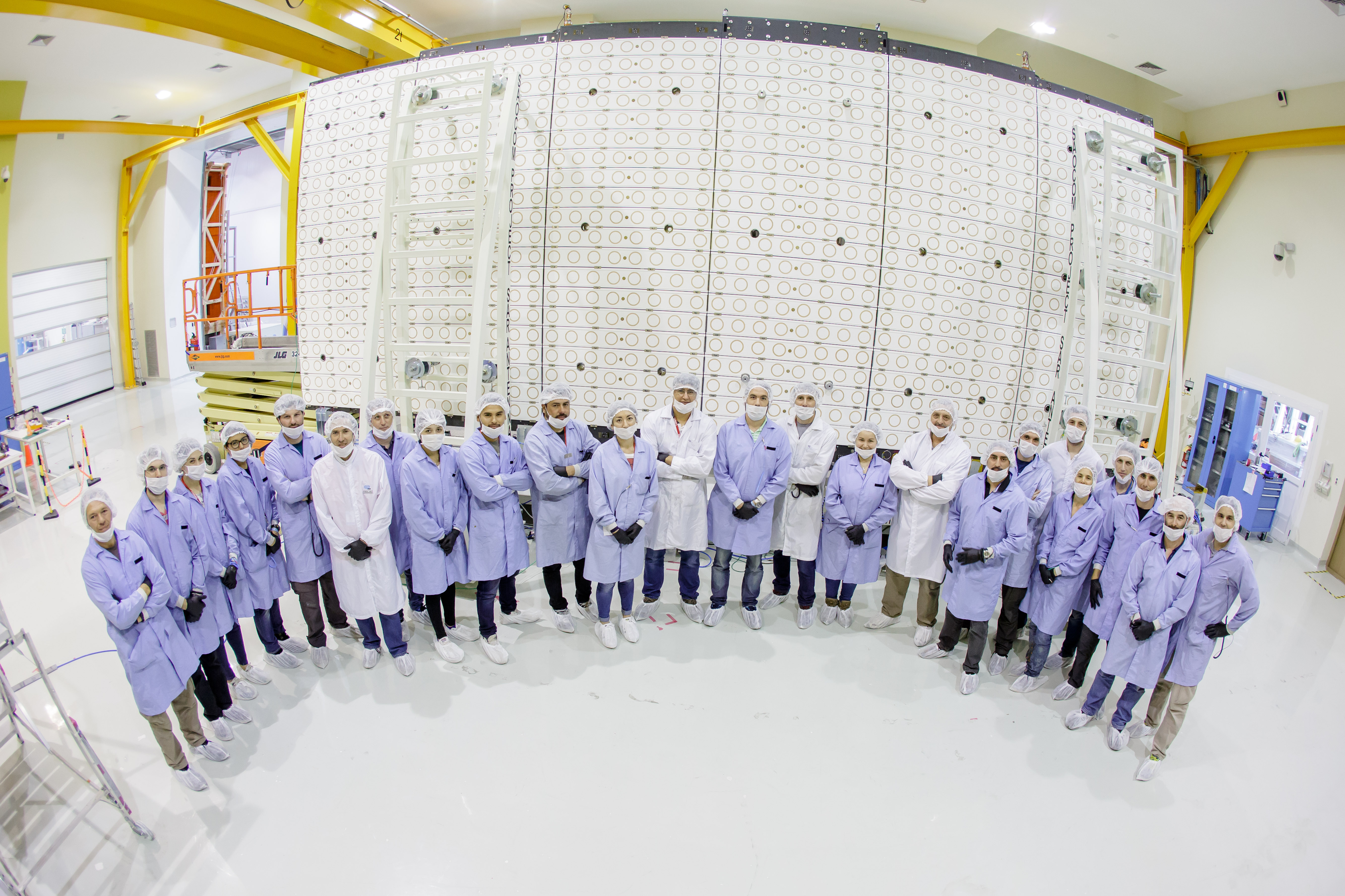 Radar antenna from the SAOCOM 1A satellite at the Teófilo Tabanera Space Center.